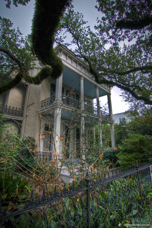 ..I’m a big Anne Rice fan, that’s why when i read somewhere that she started out in New Orleans and had a house here, i just had to take a snap of it.. so here it is 1239 first street, there was a remax sign in the gate though..